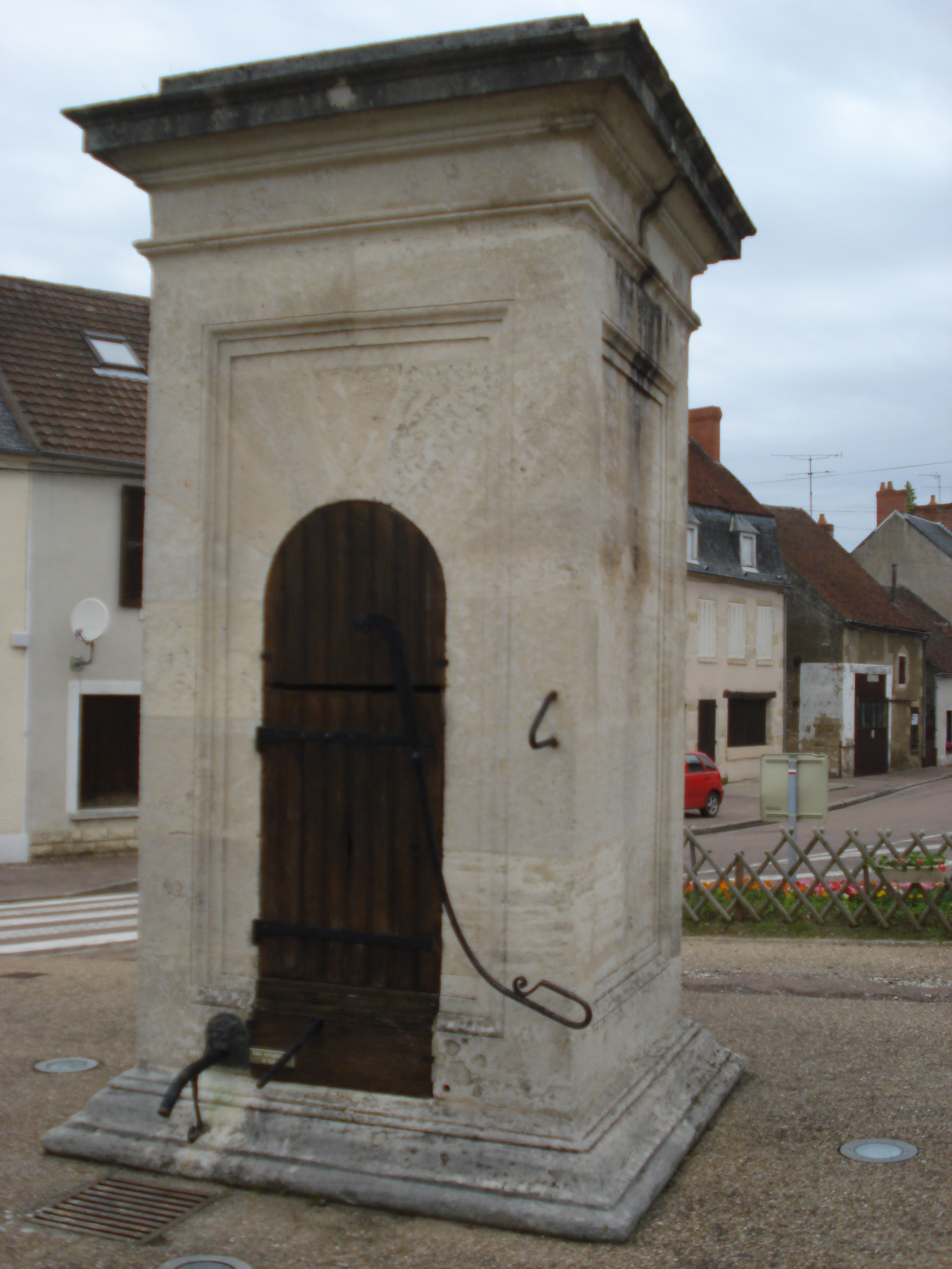 Châteauneuf-Val-de-Bargis (Nièvre, Fr), village pump